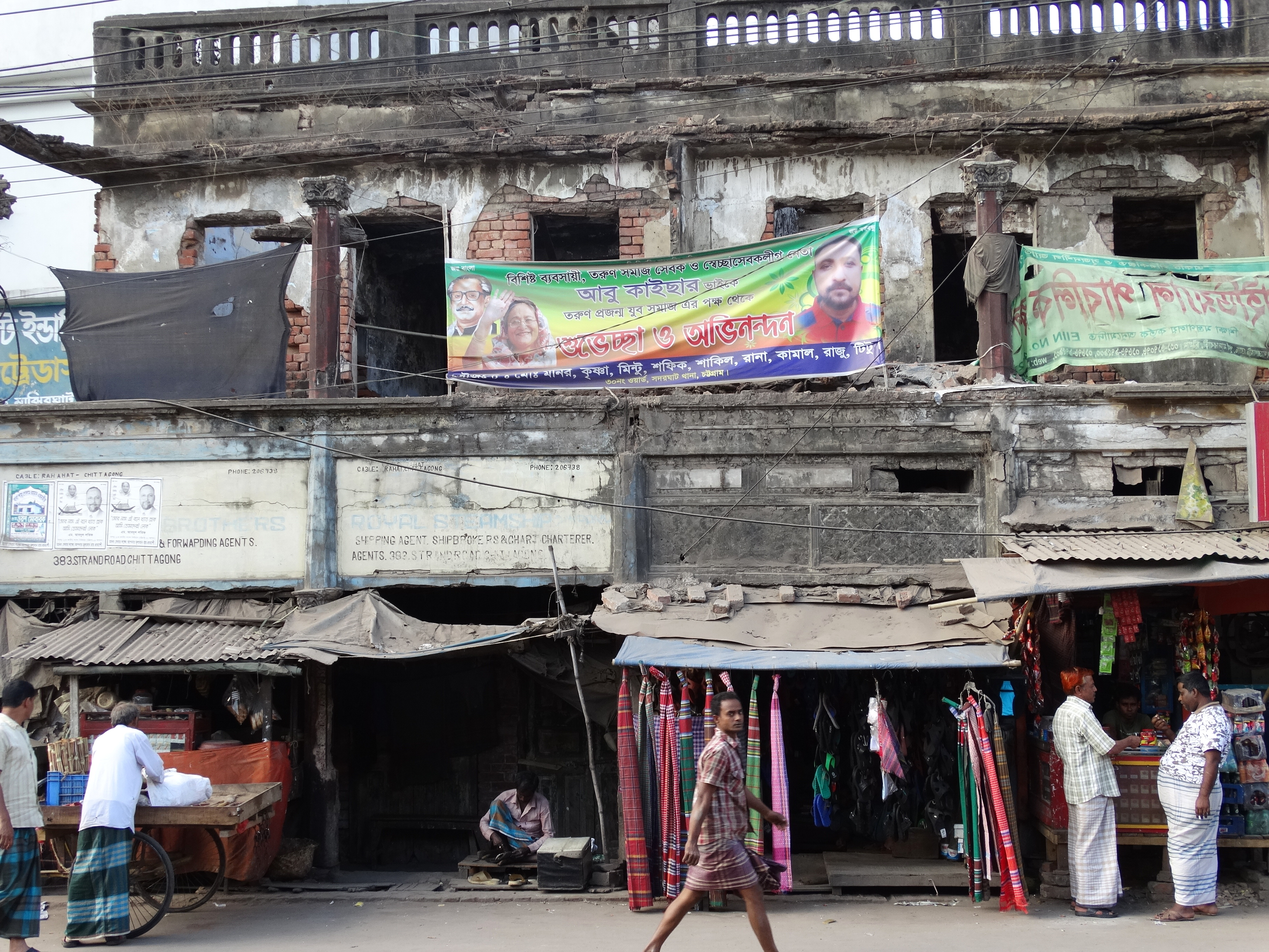 Strand Road, Chittagong.